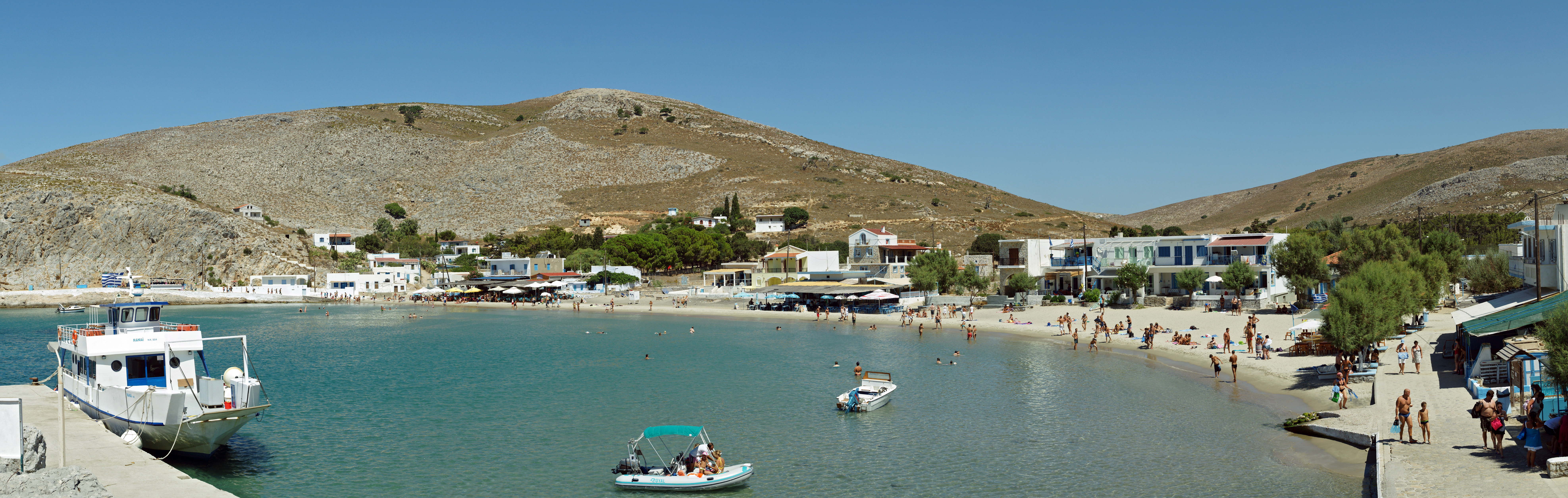 Panorama from Pserimos, Greece.